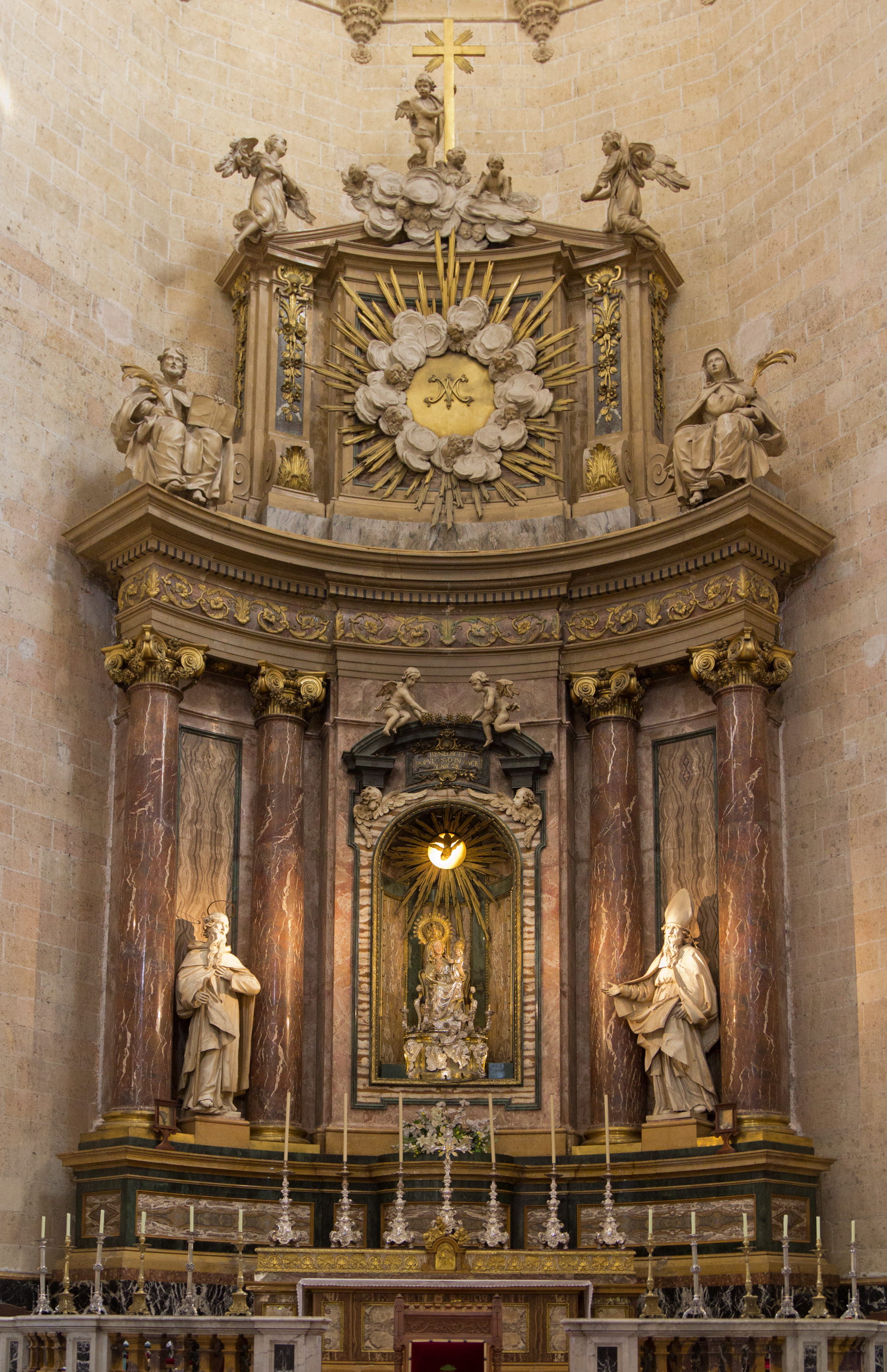 Main altar, cathedral of St. Mary, Segovia, Spain.